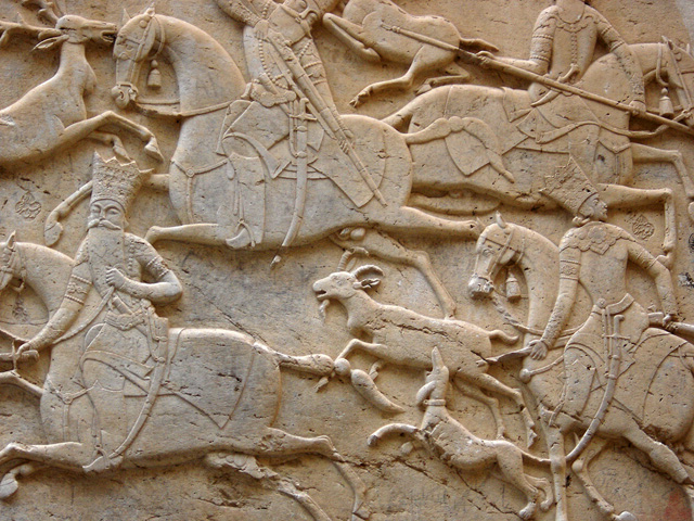 Qajar relief in Tang-e Savashi